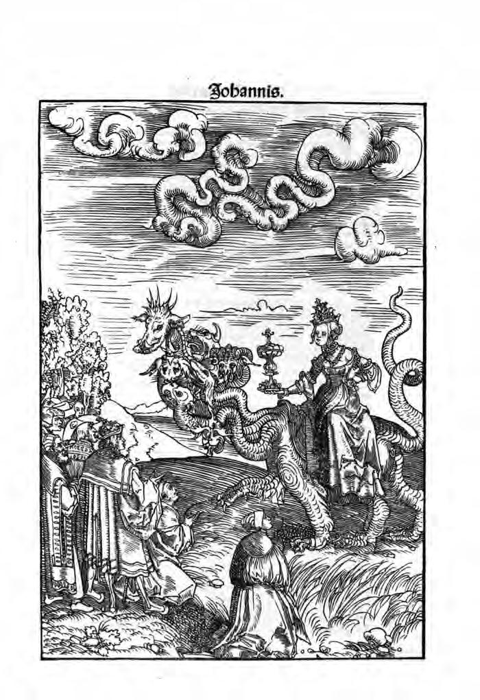 The Whore of Babylon by Lucas Cranach the Elder in the September, 1522 publication of Luther's translation of the New Testament.